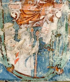 Chantres avec le bâton cantoral